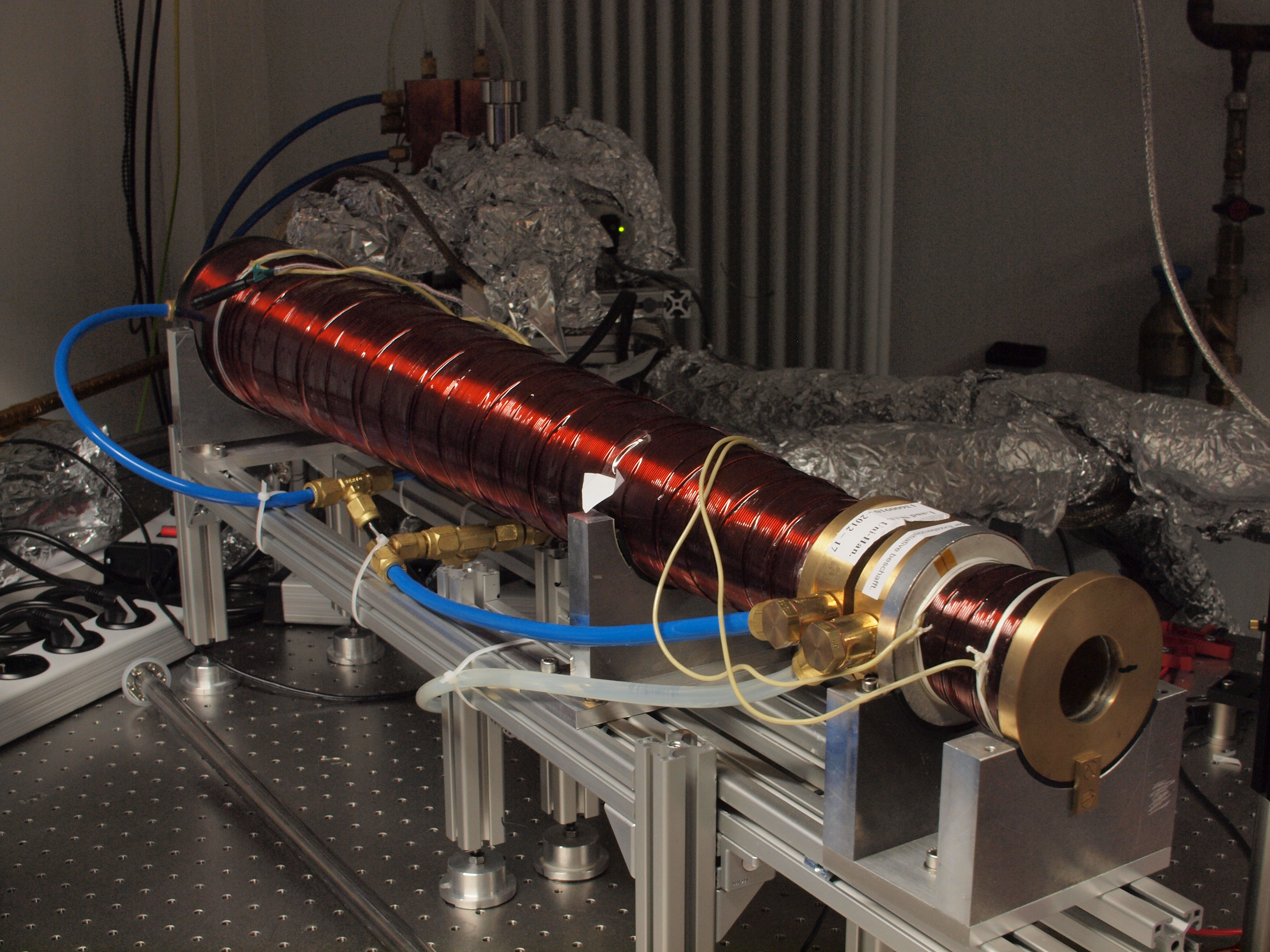 Coil of a Zeeeman slower for sodium atoms on an optical table.